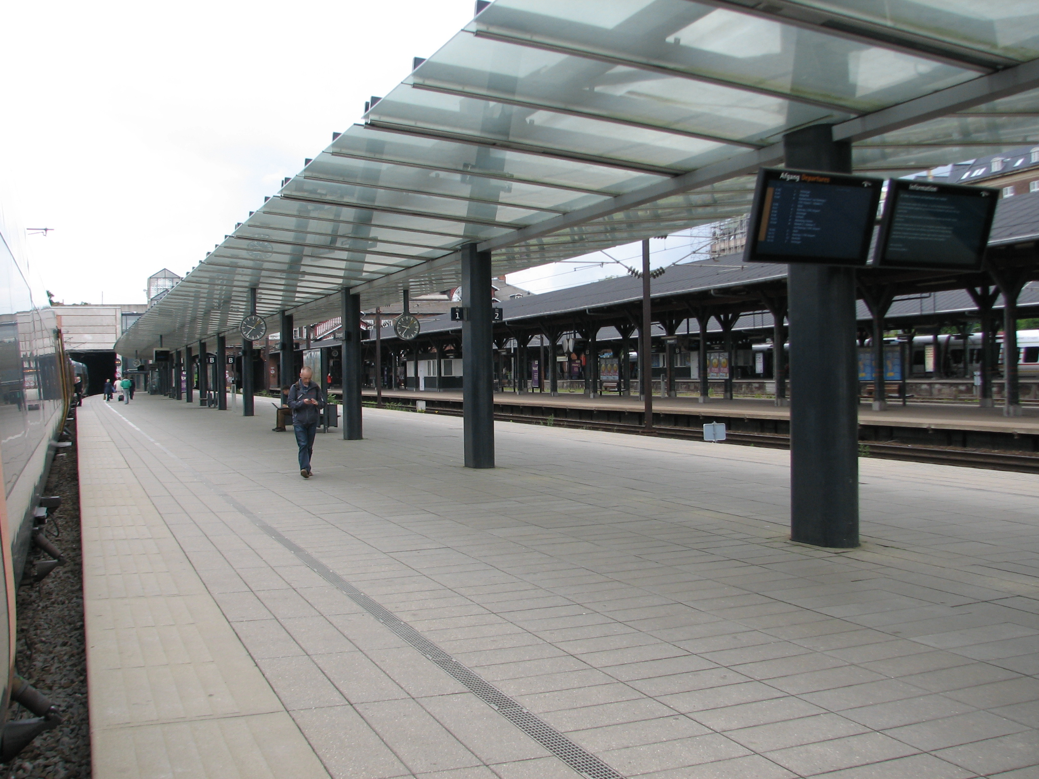 Østerport Station on track 1